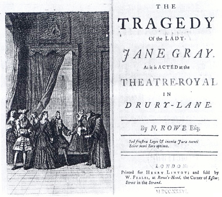 The 1736 edition of Nicholas Rowe's The Tragedy of Lady Jane Grey